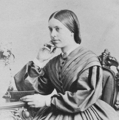 Jessie Turnbull McEwen feminist campaigner for suffrage. Miss Jessie Turnbull, QC, 1863 William Notman (1826-1891) 1863, 19th century Crop from original